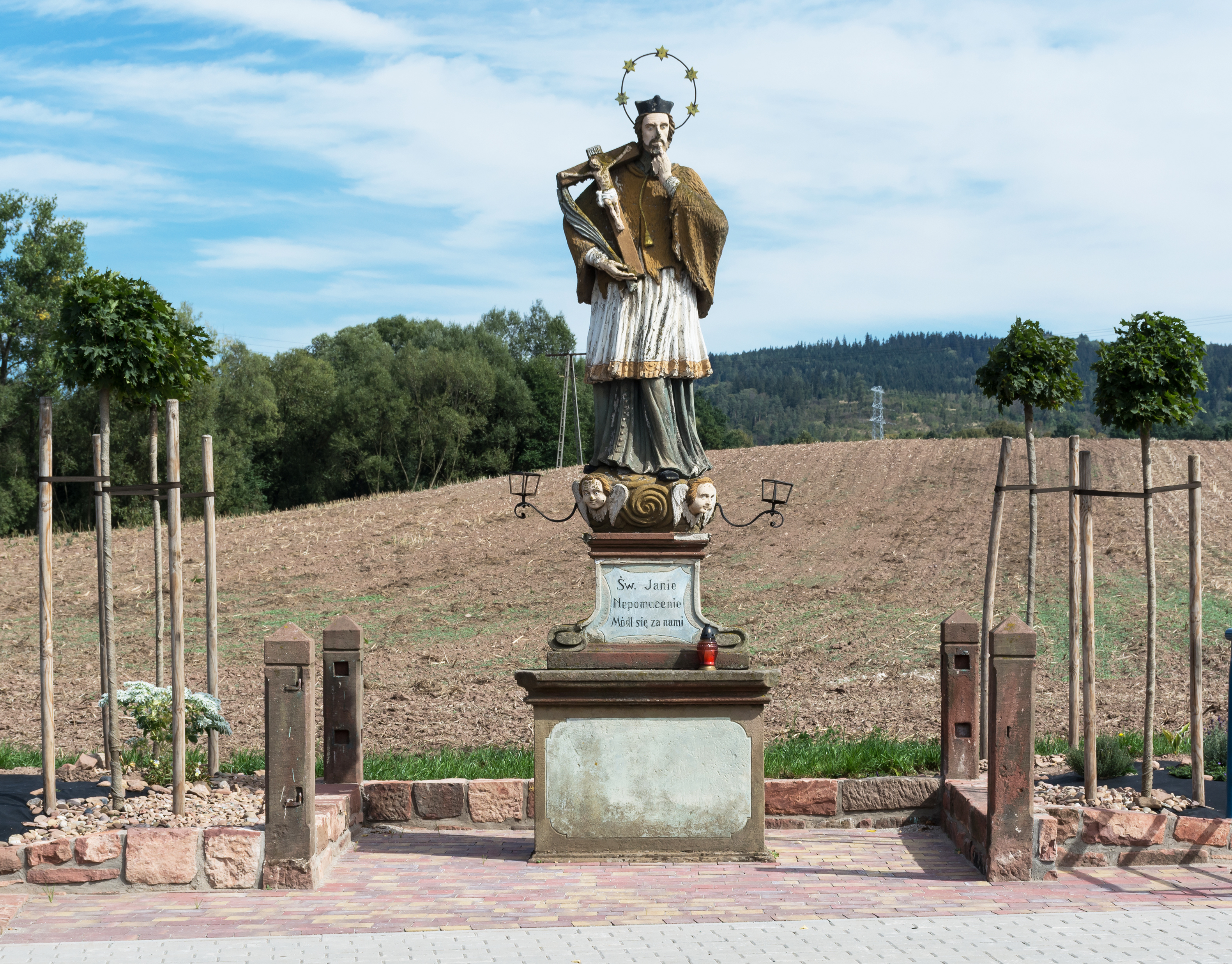 John of Nepomuk staue in Ścinawka Średnia